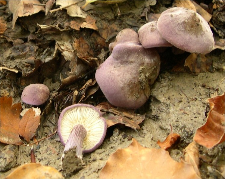 Calocybe ionides (Bull.) Donk 1962